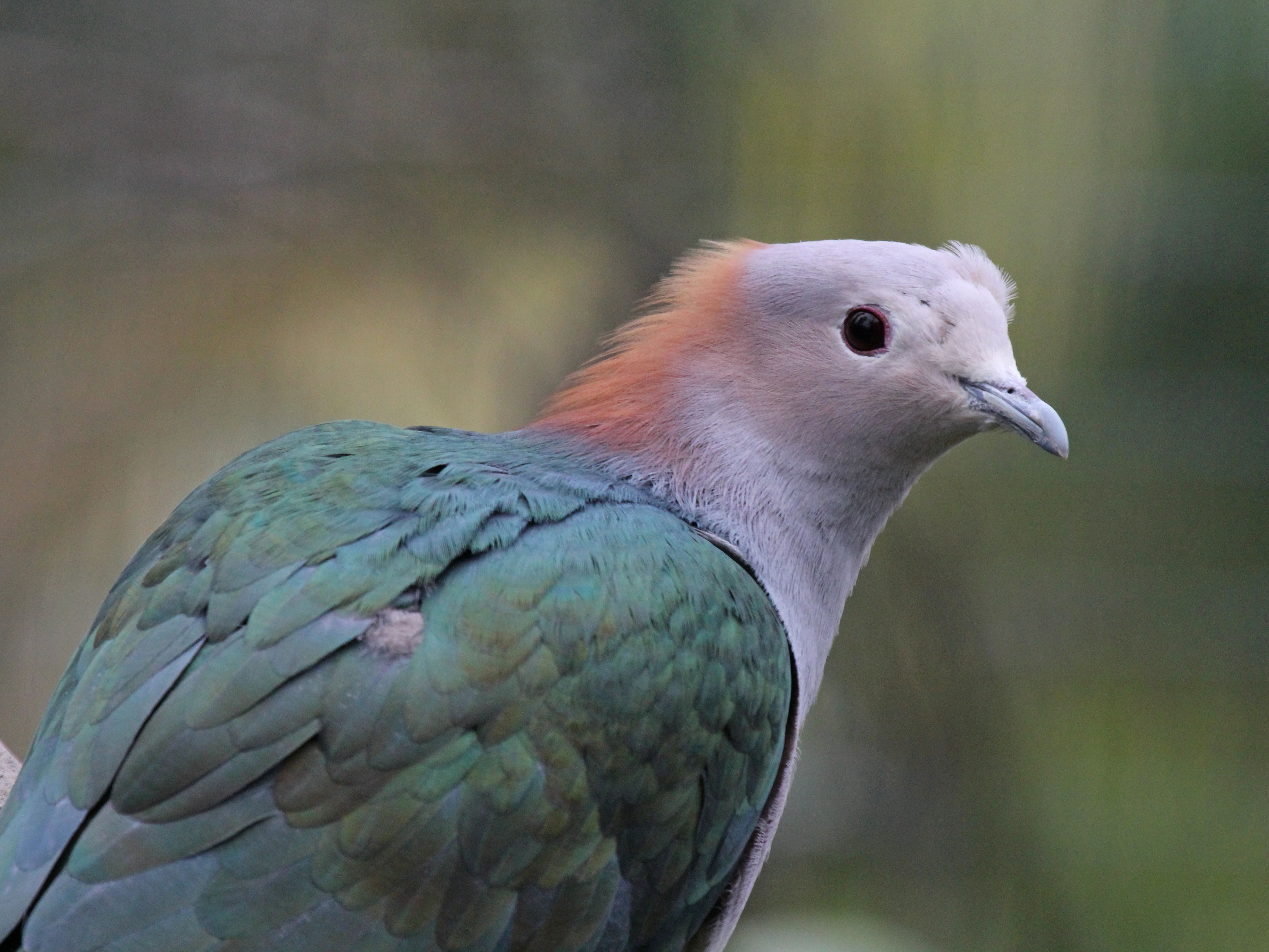 Green Imperial Pigeon (Ducula aenea)) - San Diego Zoo